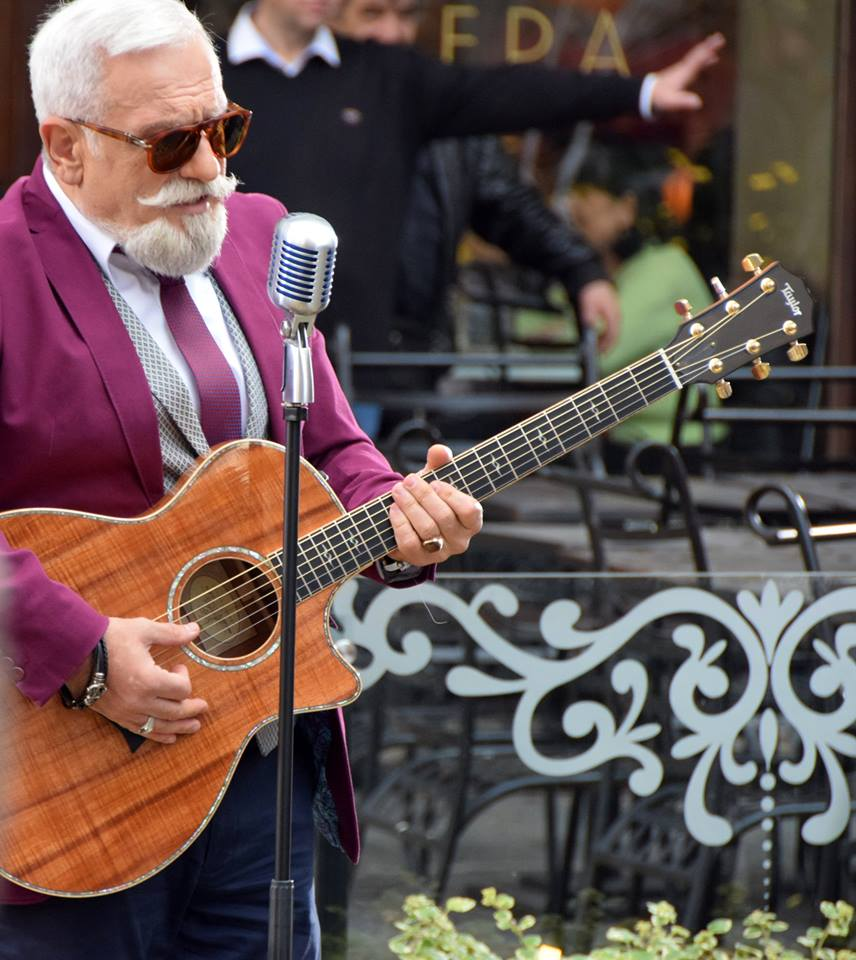 Singer Željko Samardžić on the recording of the New Year's video on the Obilićev venac square in Belgrade